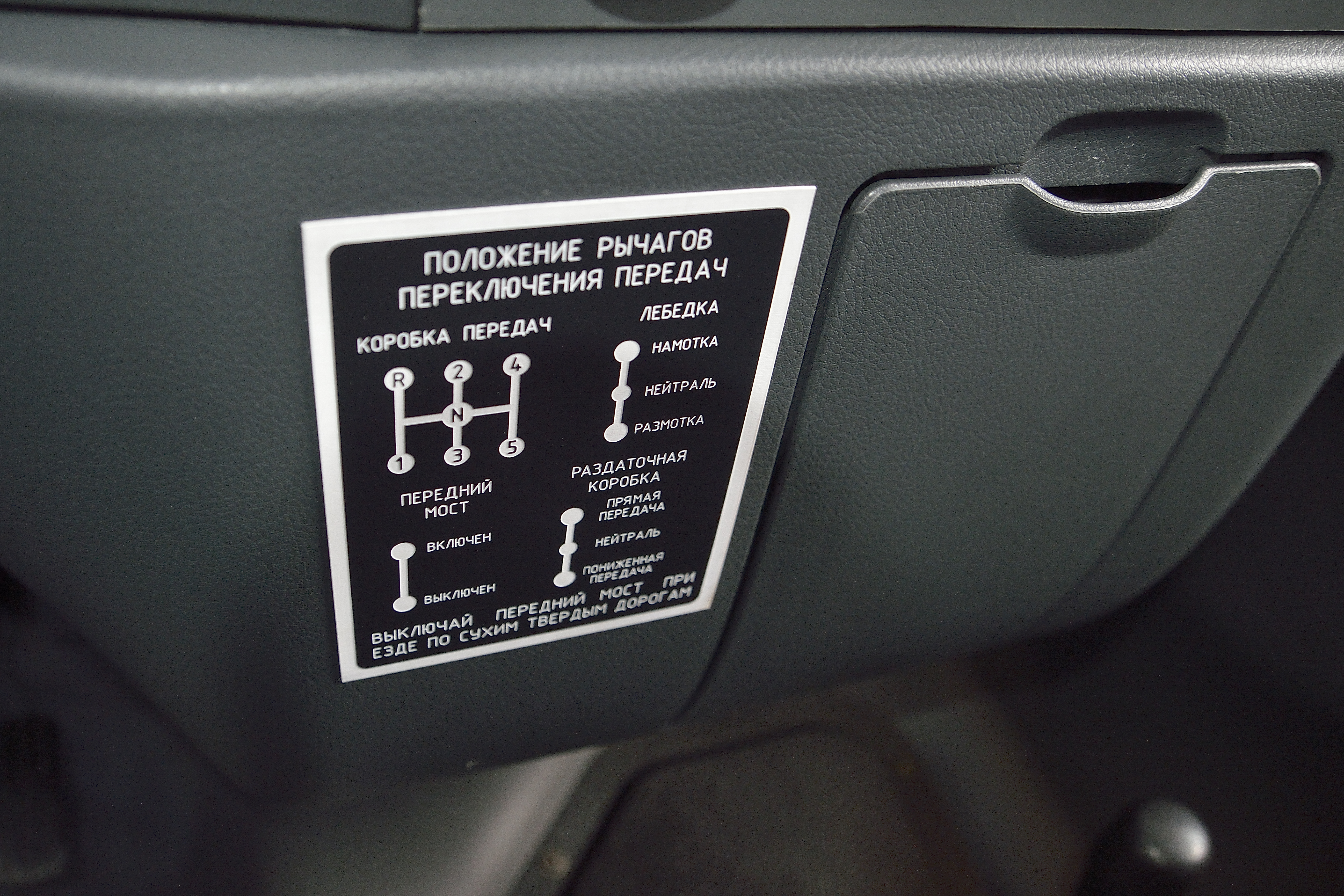 Gear shift pattern of GAZ Vepr NEXT off-road pickup truck.